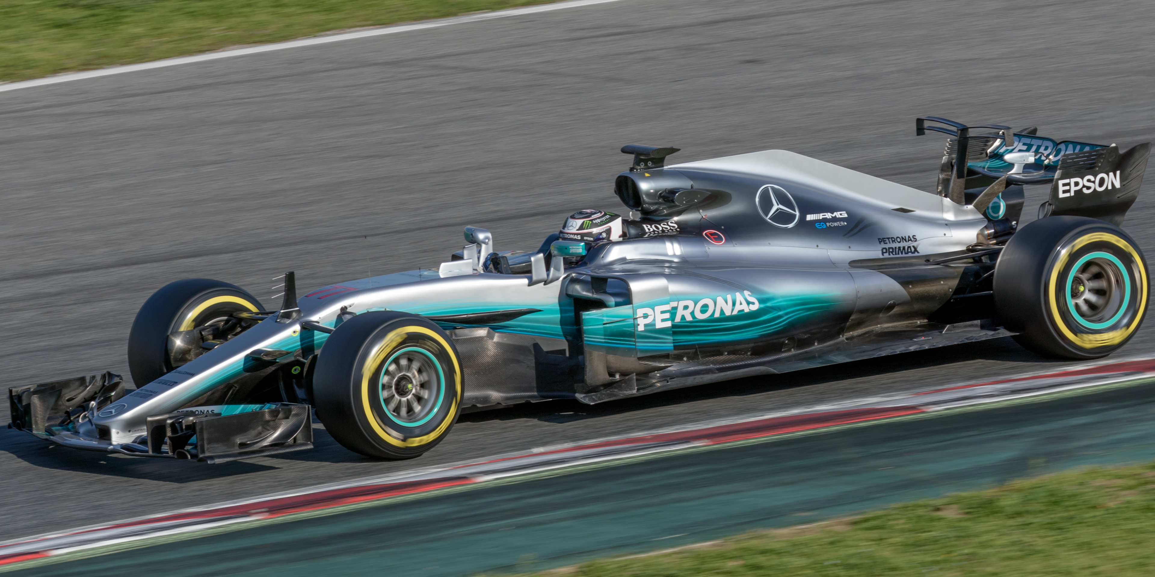 Formula One 2017 Catalonia test (27 February-2 March): Valtteri Bottas (Mercedes)